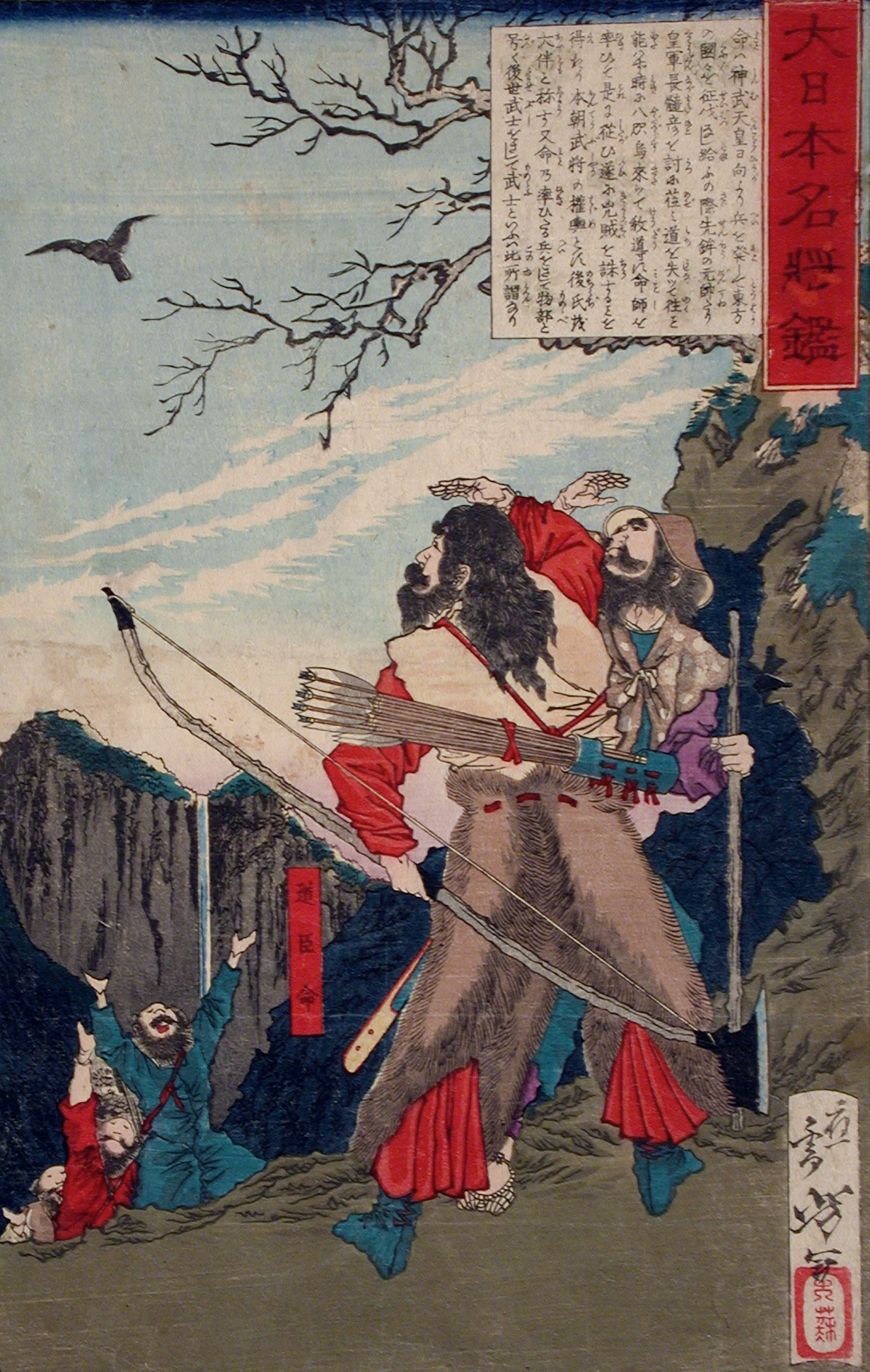 Japan, February 20, 1880 Series: Famous Generals of Great Japan Prints; woodcuts Color woodblock print Image: 12 9/16 x 8 in. (31.91 x 20.32 cm); Sheet: 13 7/16 x 9 1/8 in. (34.14 x 23.18 cm) Gift of Chuck Bowdlear, Ph.D., and John Borozan, M.A. (M.2000.105.97) Japanese Art 道臣命が神武東征で菟田に向かう途中、八咫烏を追う場面